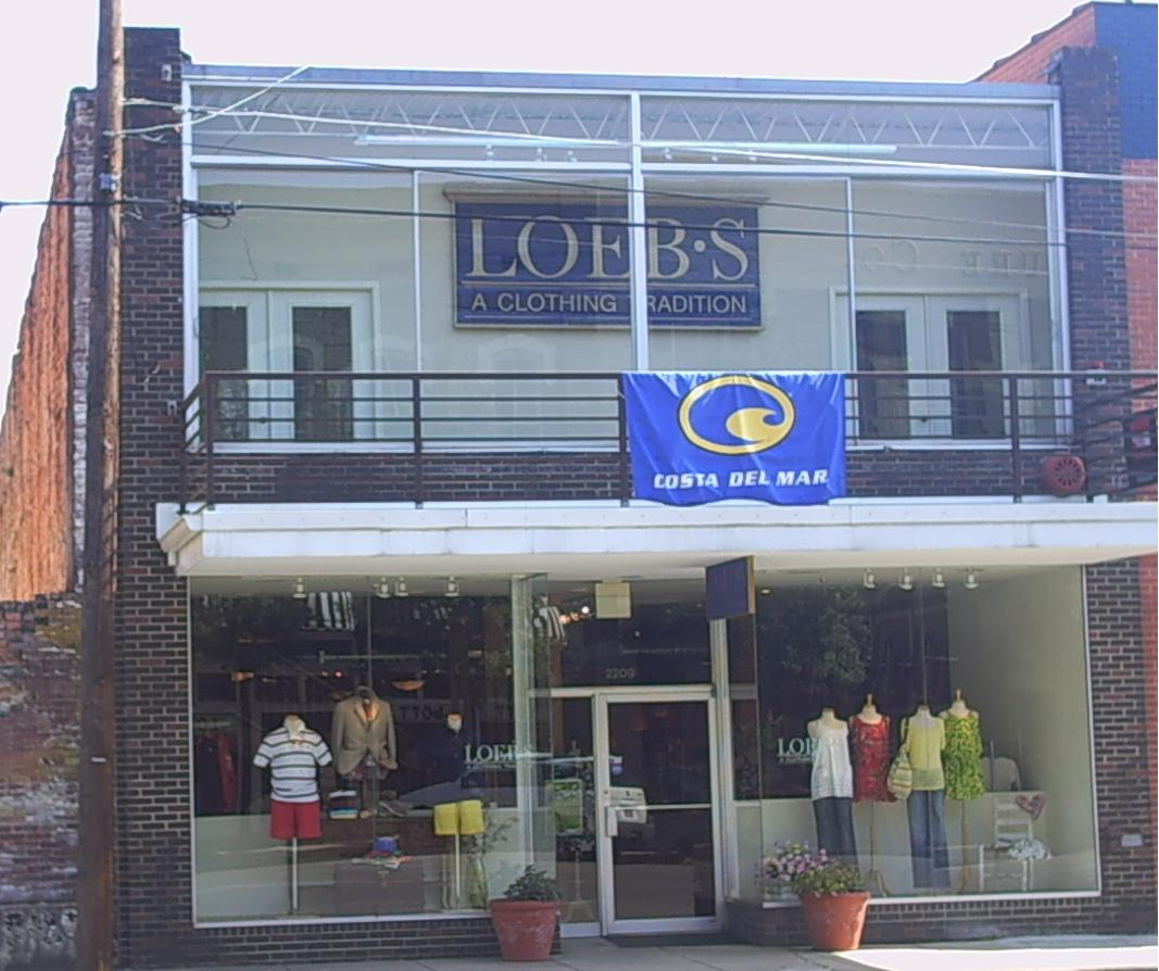 Historic Loeb's Building in Downtown Meridian, MS